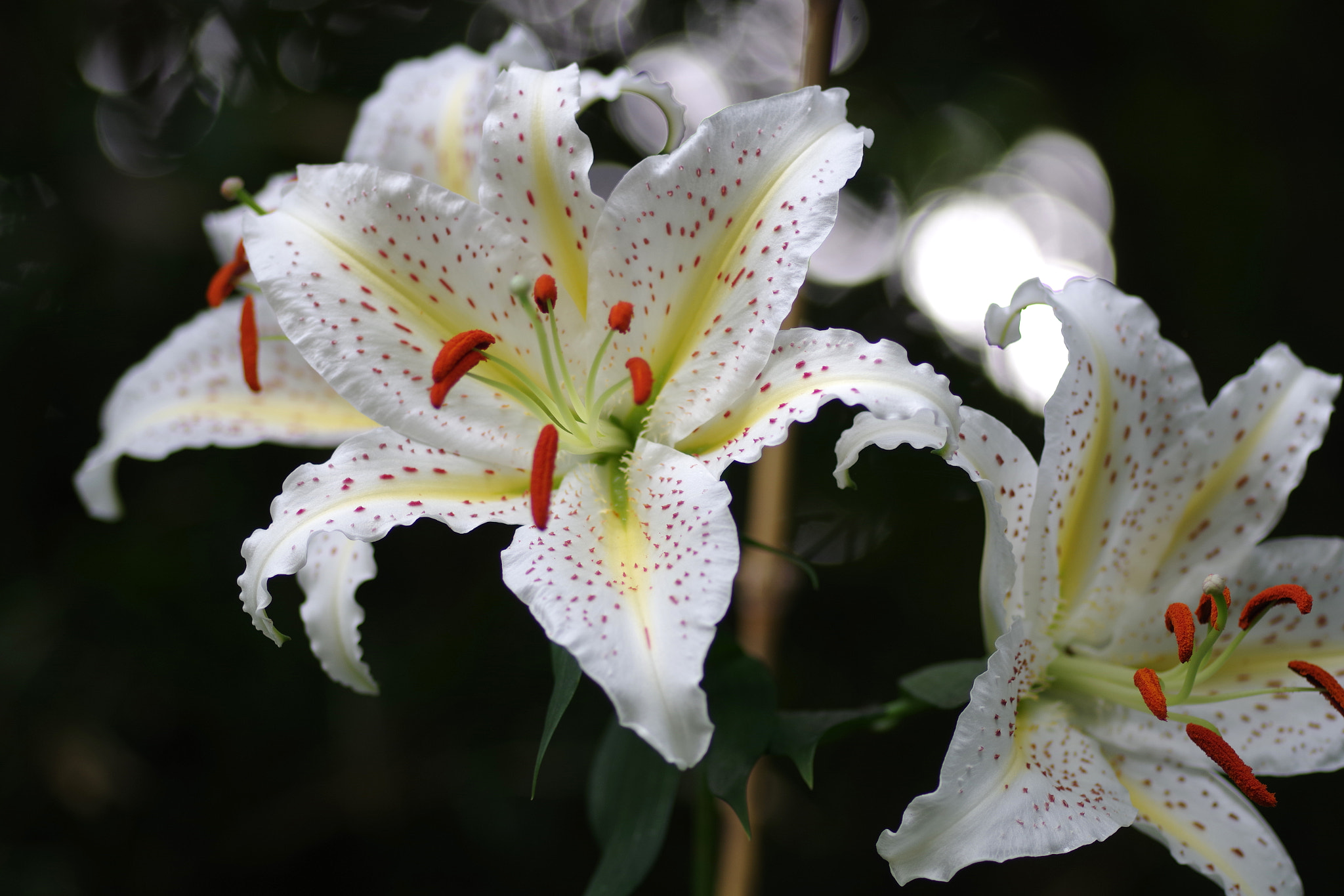 500px provided description: Lilium Auratum ヤマユリ [#yellow ,#red ,#flower ,#white ,#blossom ,#100mm macro ,#APS-C ,#Mitsuike park ,#PENTAX K-S2]